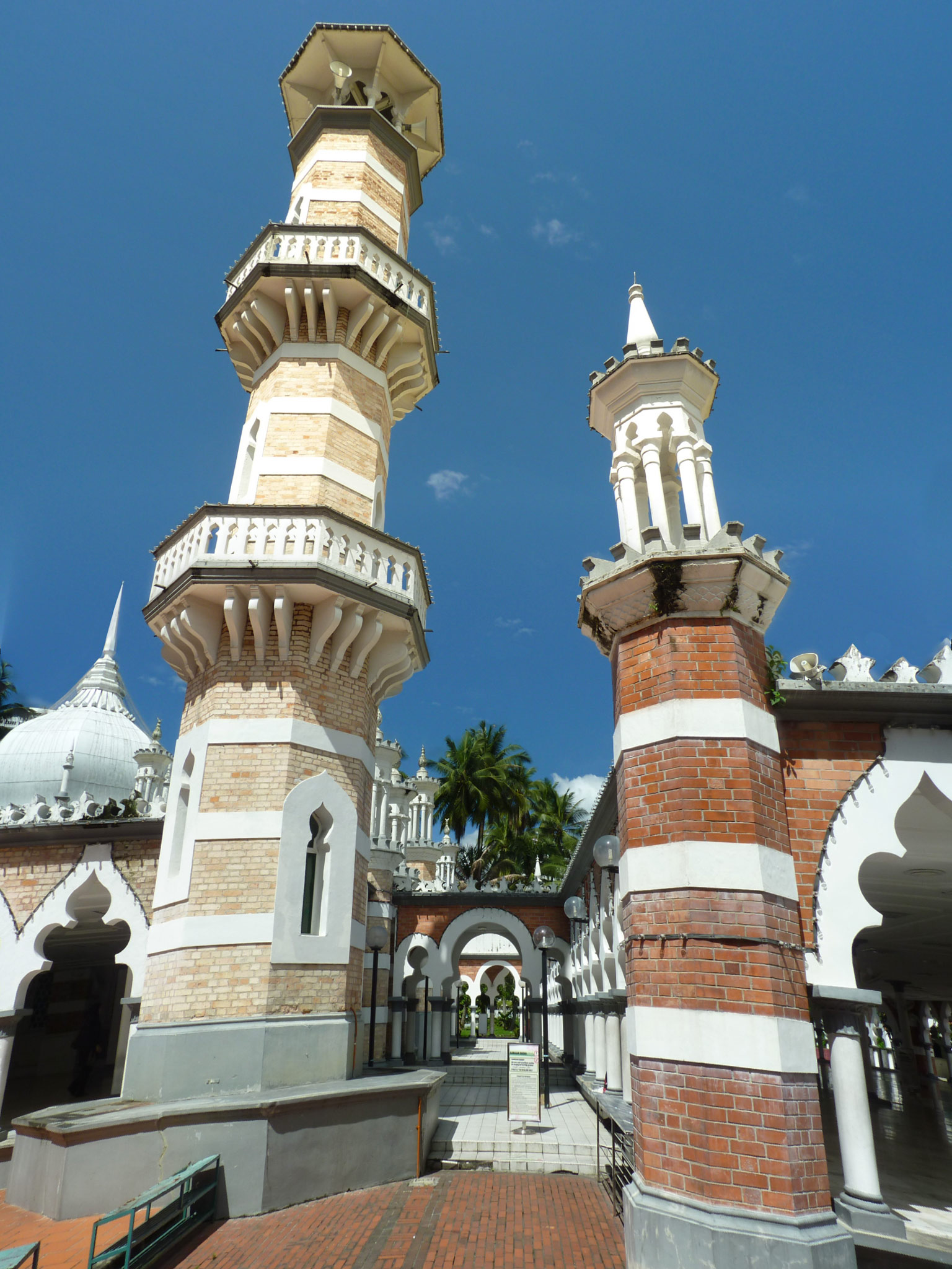 Original part (left) and extension (right) of Jamek mosque in Kuala Lumpur, Malaysia exhibiting differently coloured bricks.